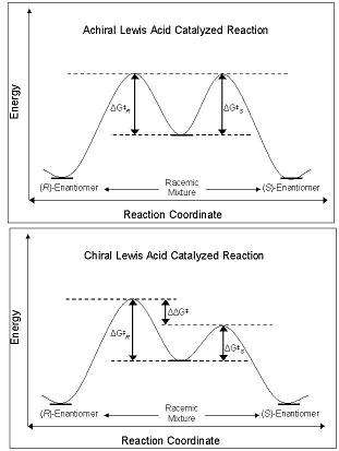 Chiral and Achiral Lewis Acid Catalyzed Reactions